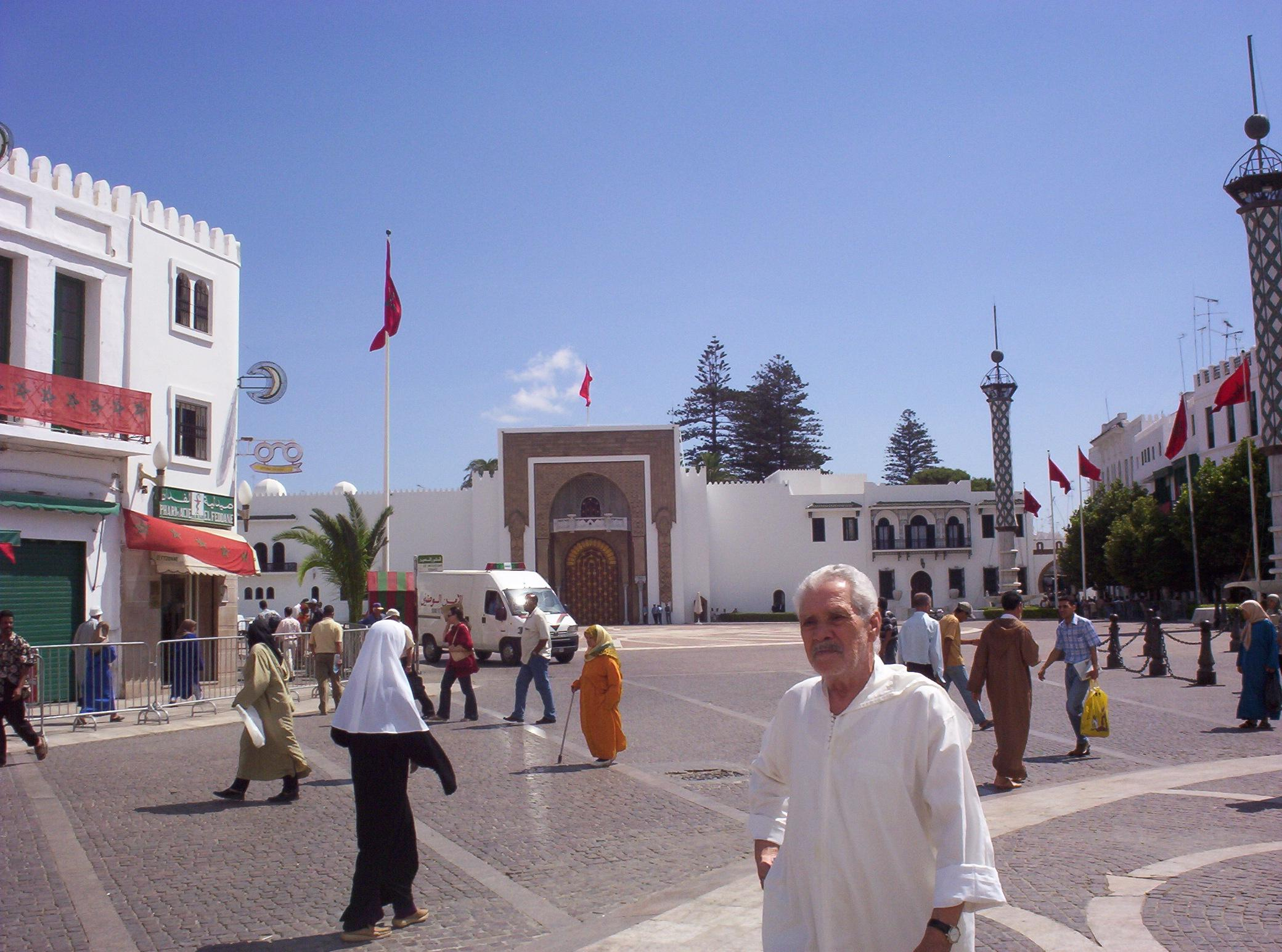 Poyal palace at Tetouan, Morocco